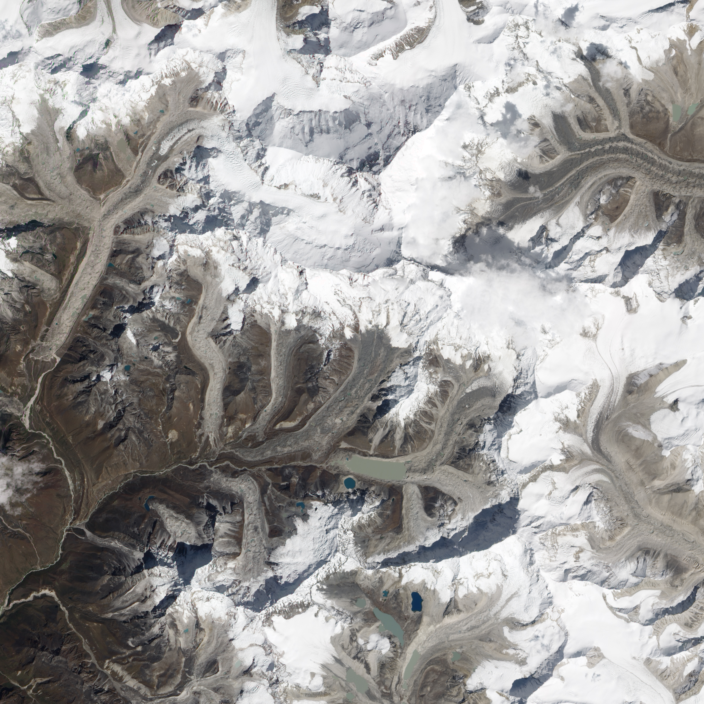 Natural-colour image of Imja Tsho and surrounding glaciers. Dirt and debris coat these rivers of ice; like the glaciers feeding it, Imja Tsho appears dull gray-brown. A thin trickle of water exits the lake on its western side, having carved through the natural earthen dam.